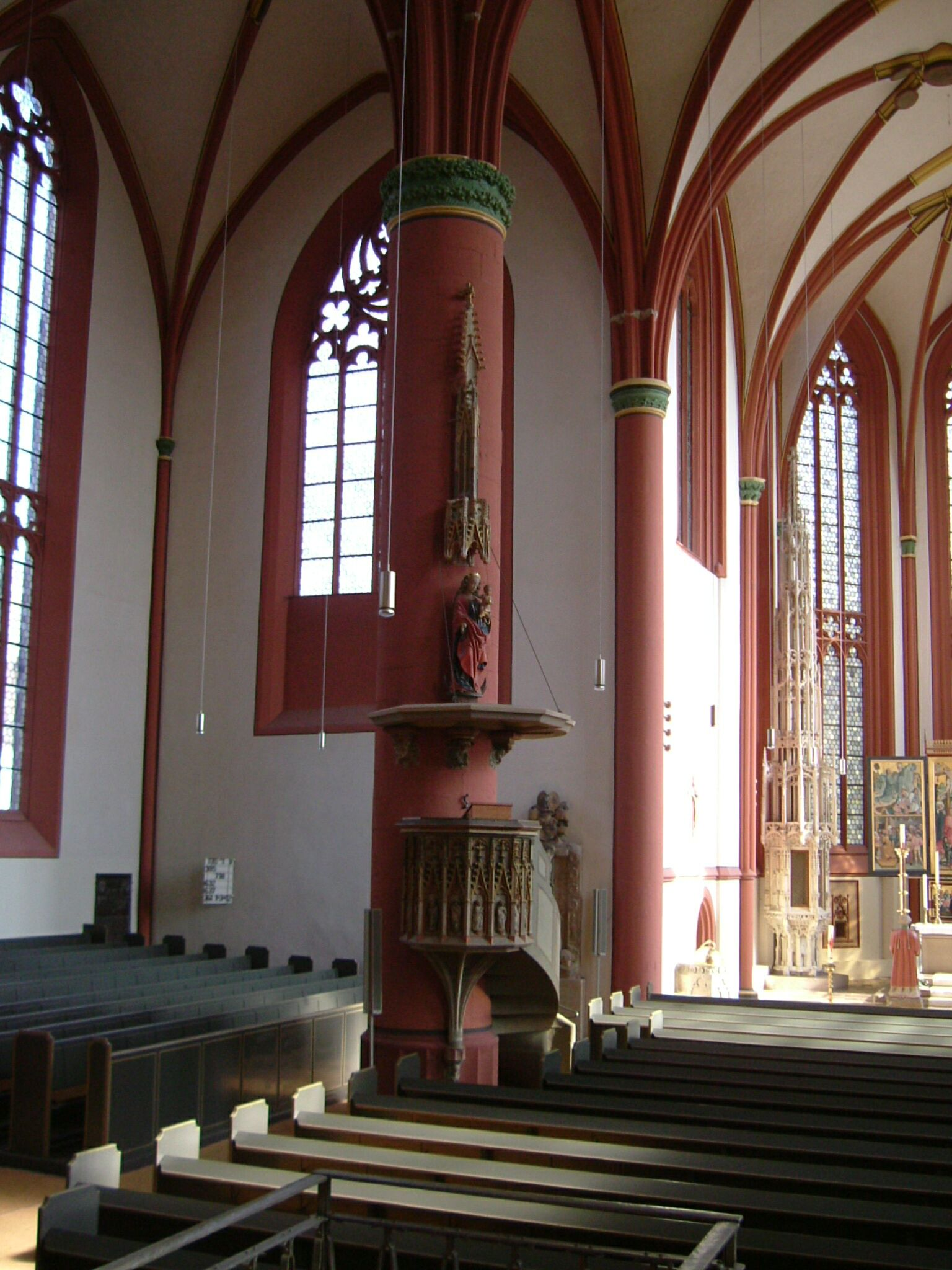 Korbach, Germany. Kiliankirche. Author: Peter Kaboldy, 03.2007.